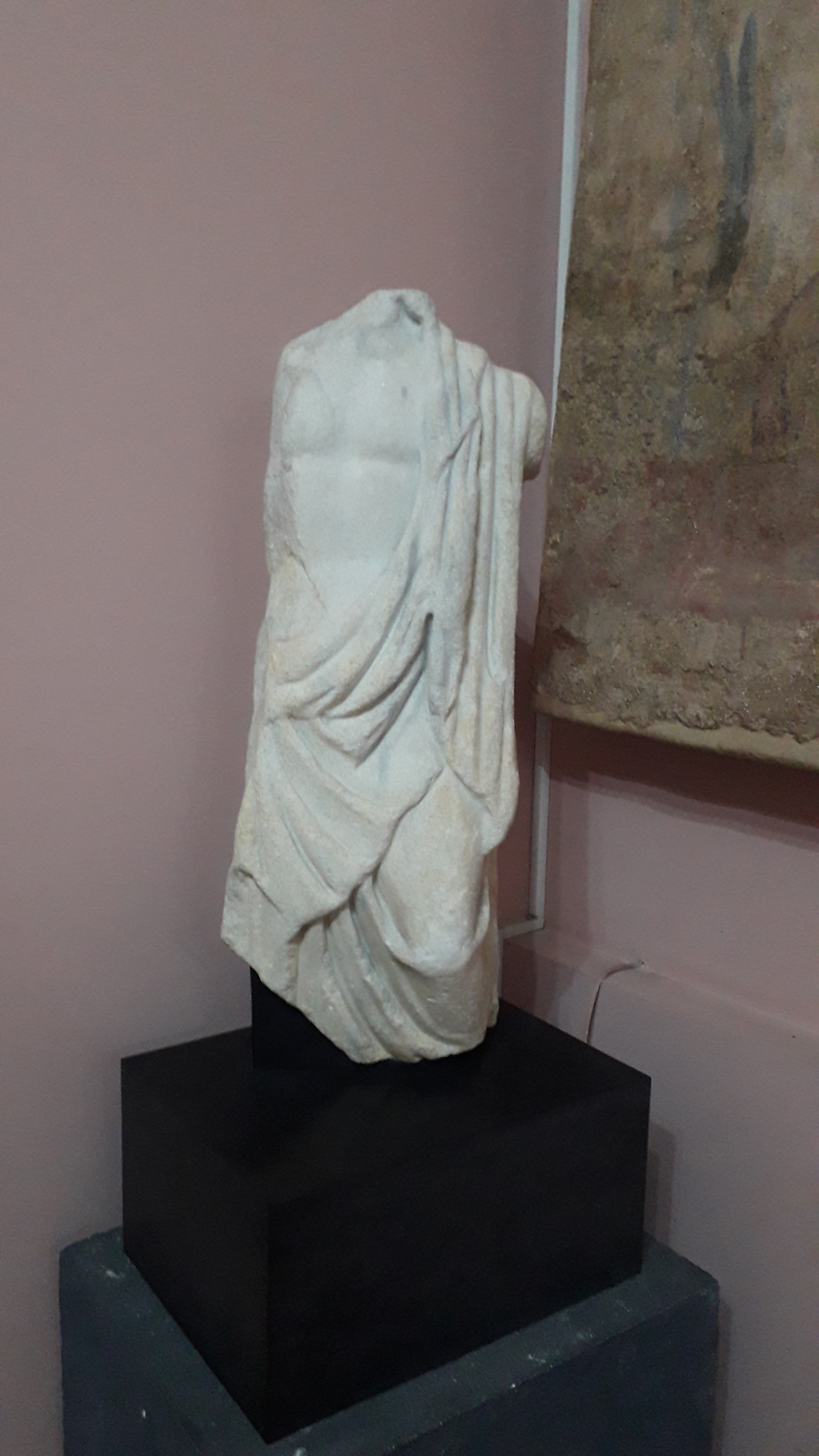 Statue of Hercules from the exhibition of National museum Požarevac, in Serbia